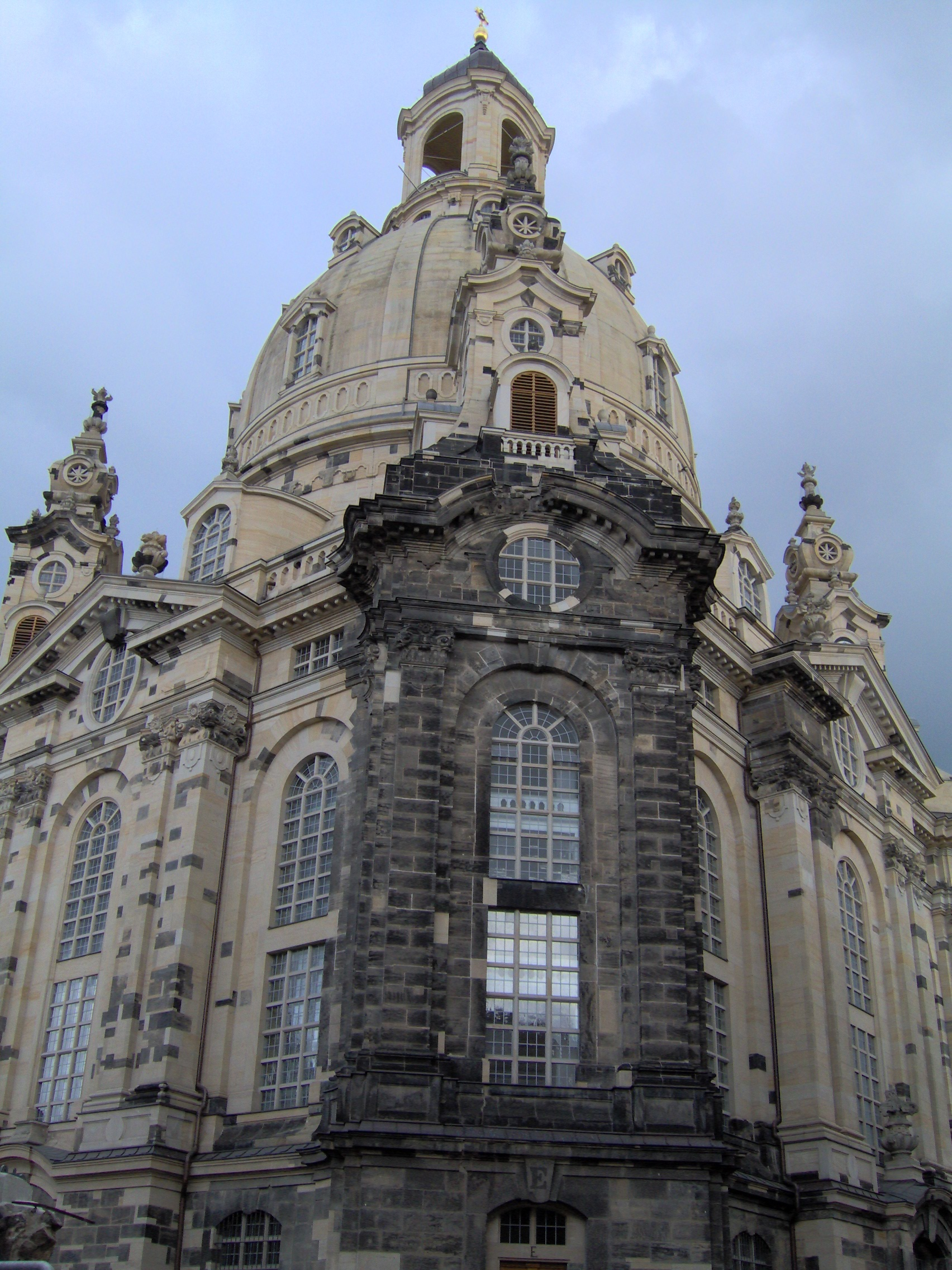 View of the Dresden Frauenkirche showing old (blackened) and new (light-colored) stone. Self taken, 2006.